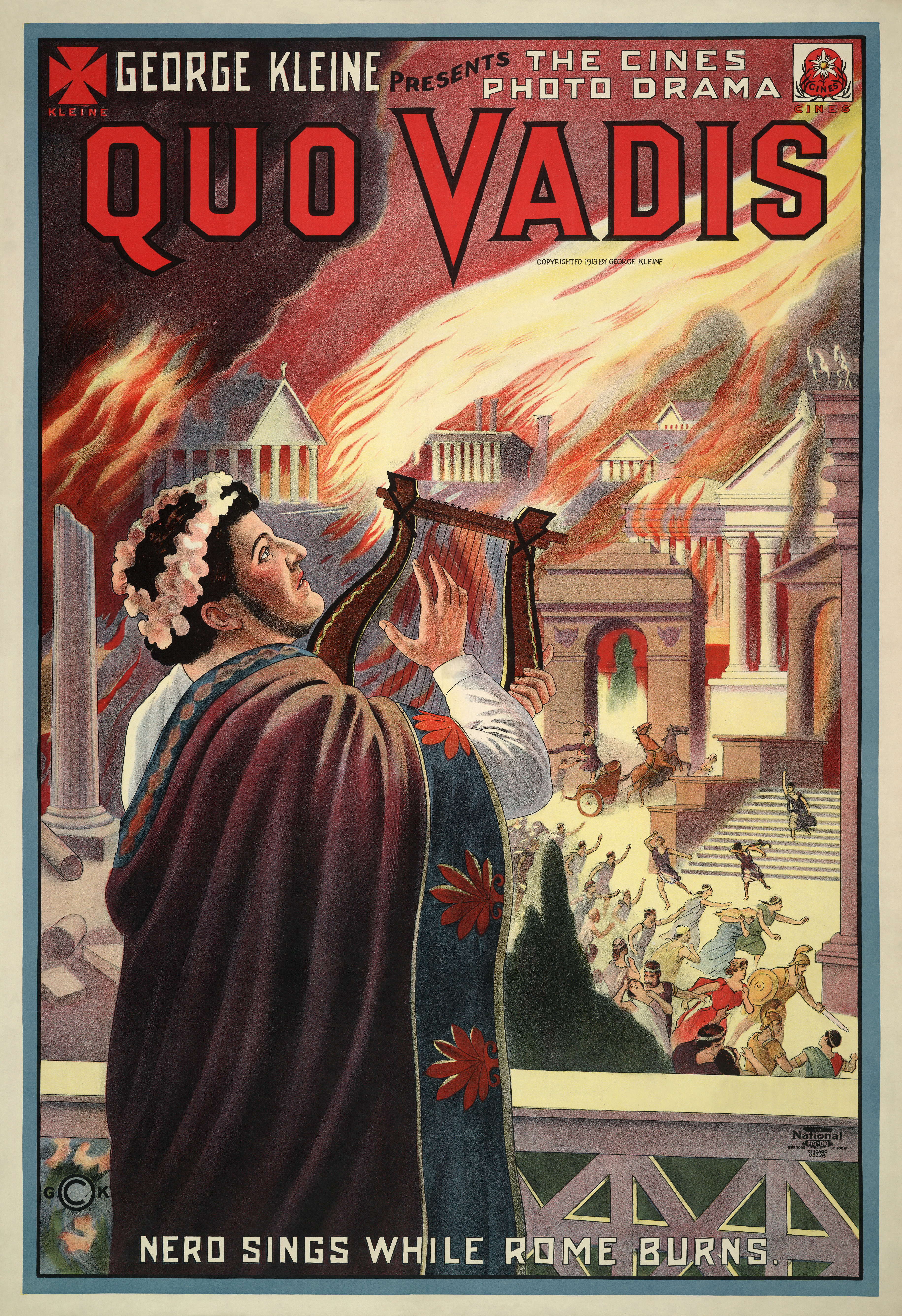 "George Kleine presents the Cines photo drama Quo Vadis: Nero sings while Rome burns." Chromolithograph, motion picture poster for 1913 film. Poster copyrighted to George Kleine.